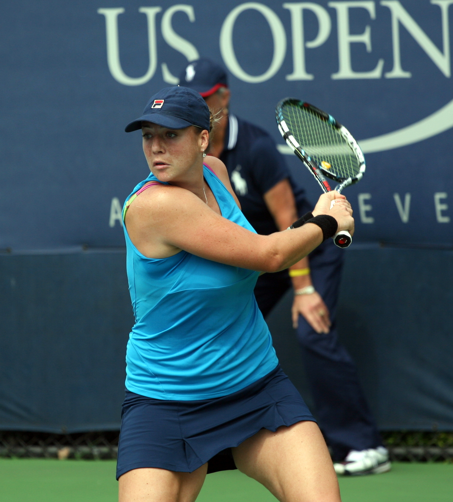 Alisa Kleybanova at the 2013 US Open, Thursday, August 29, 2013